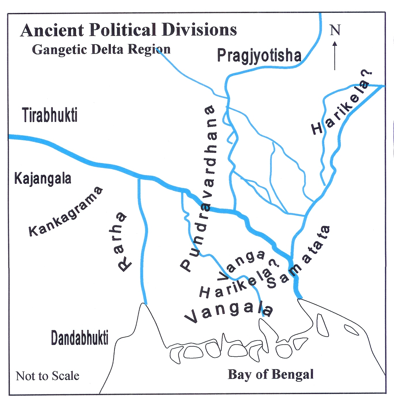 Ancient political divisions including historic Pundravardhana